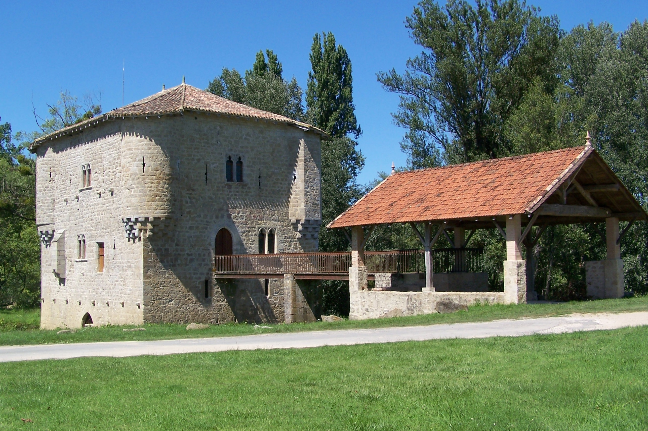 Watermill of Bagas (Gironde, France)